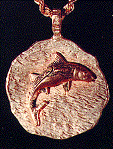 One of the Gold Medallions worn by the Black Tuna Gang to signify membership (Text by Drug Enforcement Administration). The Black Tuna Gang was a major marijuana smuggling ring from Colombia.